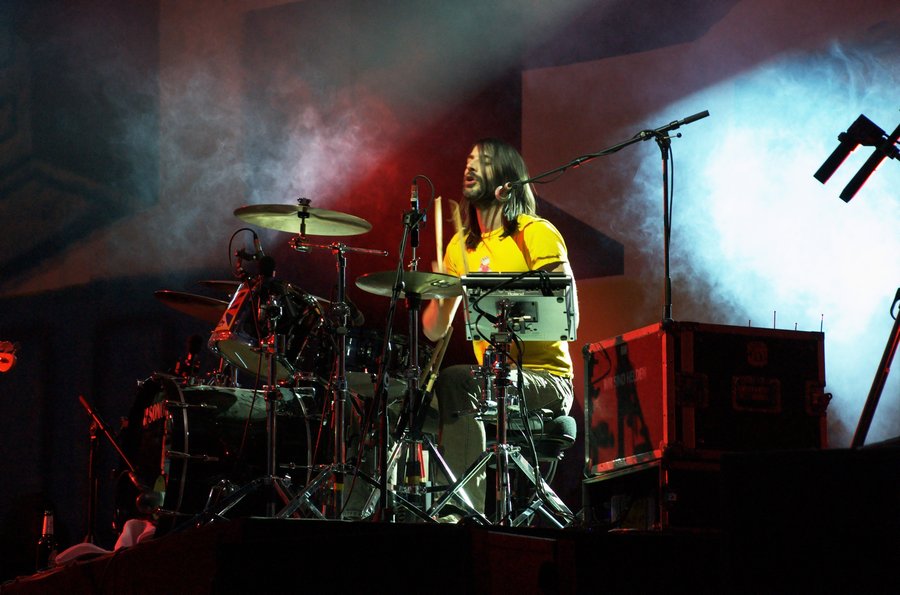 Pola Roy at the festival Berlin 08